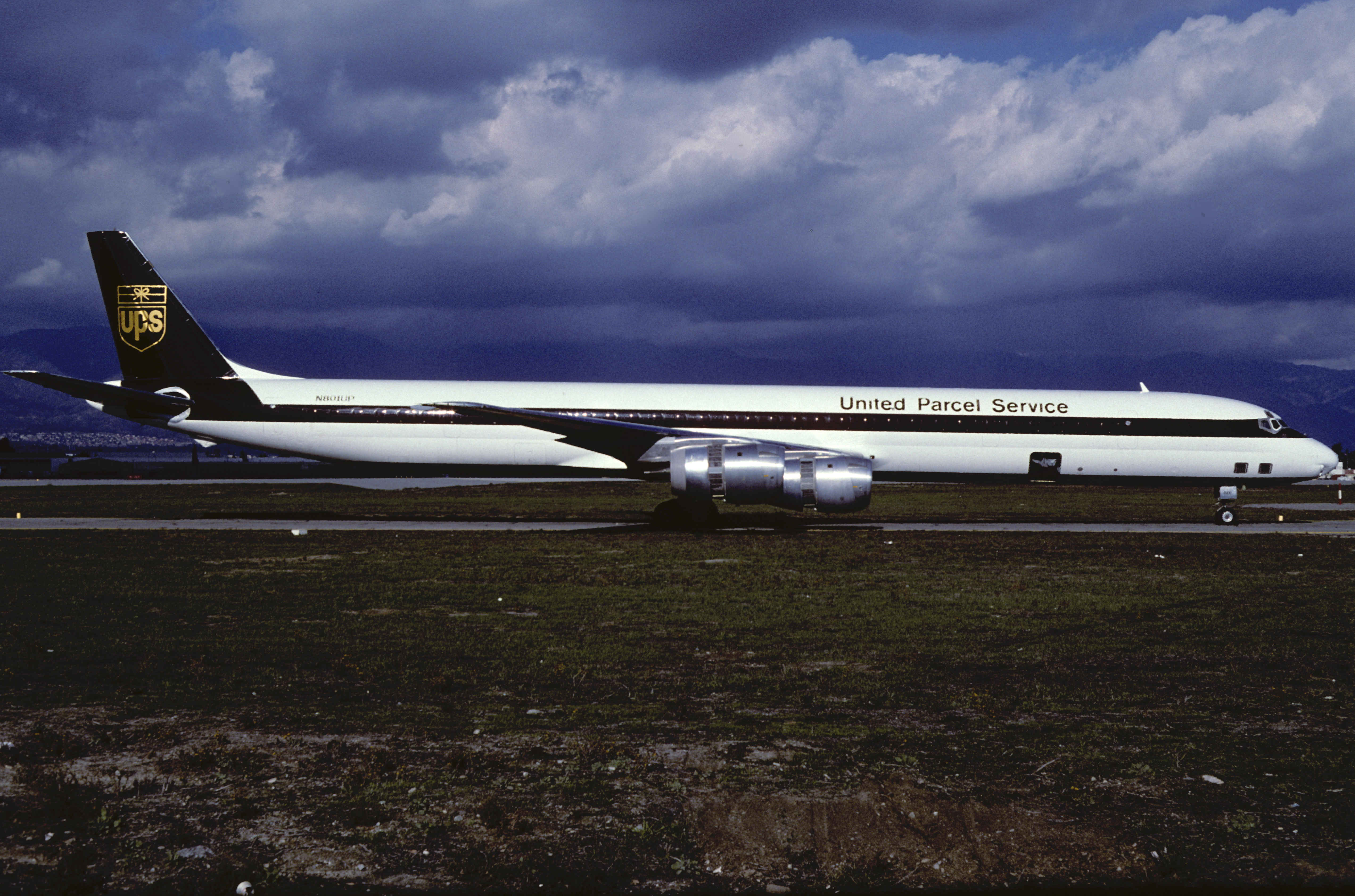 UPS DC-8-73F (AF); N801UP@ONT, January 1985/ AOH